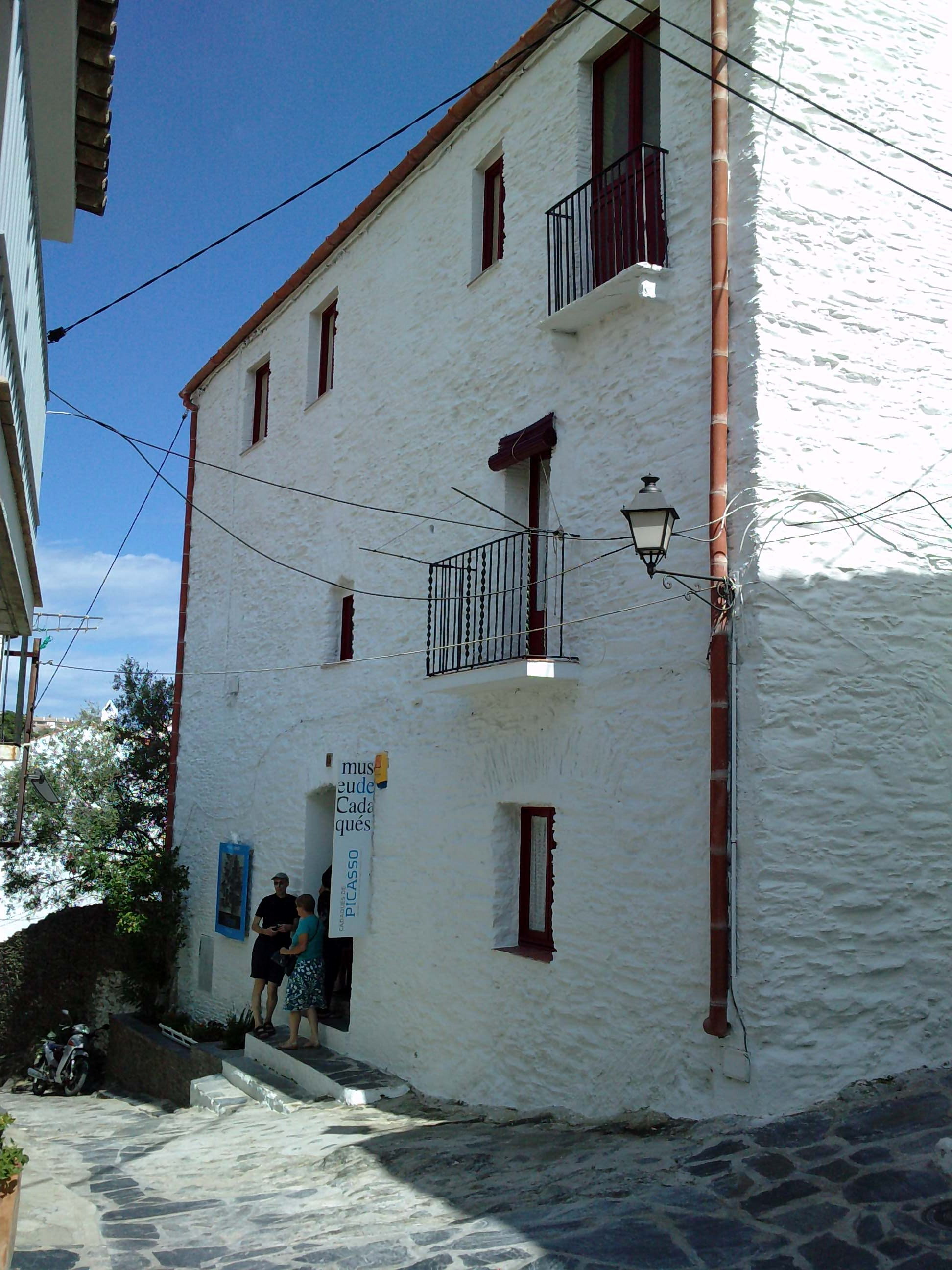 Museum of Cadaqués